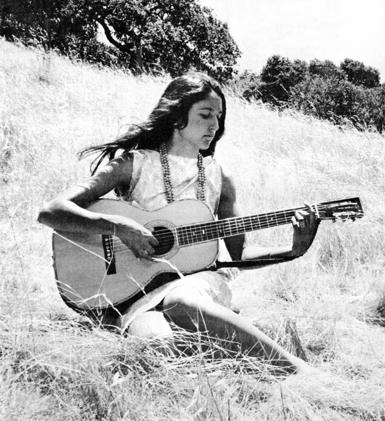 Trade ad for Joan Baez's single "There But For Fortune".To better adapt it to his respective Wikipedia article, the ad was cropped and cleaned in a graphics editing program. The original can be viewed at the source below.